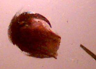 Fang and chelicera of a 25mm long Psalmopoeus cambridgei (tarantula) and the tip of the smallest sewing needle available to me in ordinary commerce. Will penetrate to a depth of about 2 mm. 10x mangification.